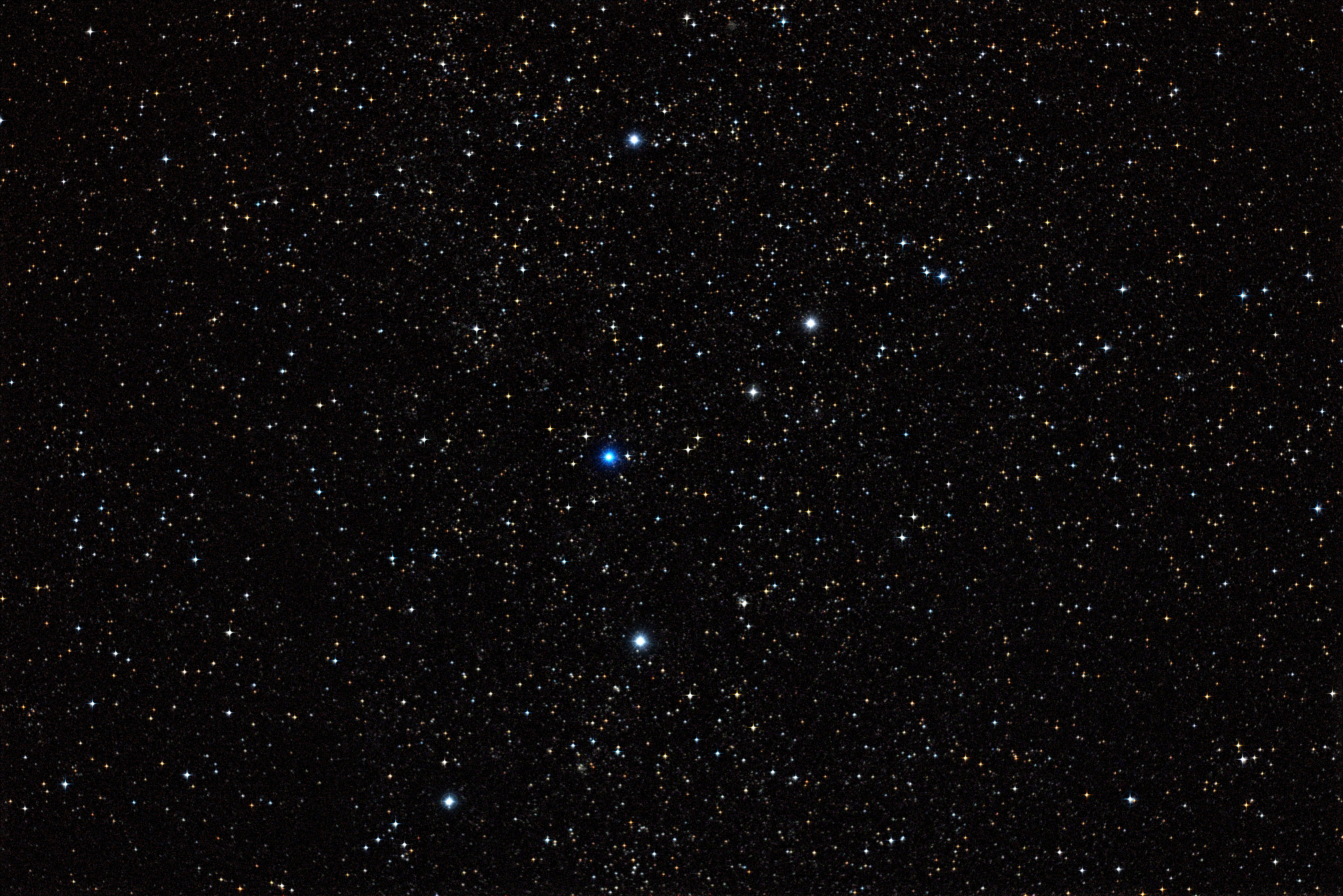 Image of the constellation Cassiopeia, stacked from five single images using Deep Sky Stacker, then further postprocessed using Photoshop.